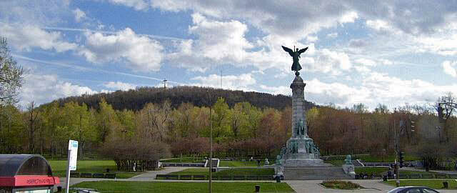 Mount Royal seen from av. du Parc in Montreal. Personal snapshot by Montréalais.